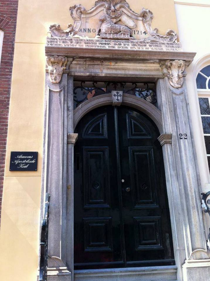 Armenian Apostolic Church, Amsterdam, Surb Hogi